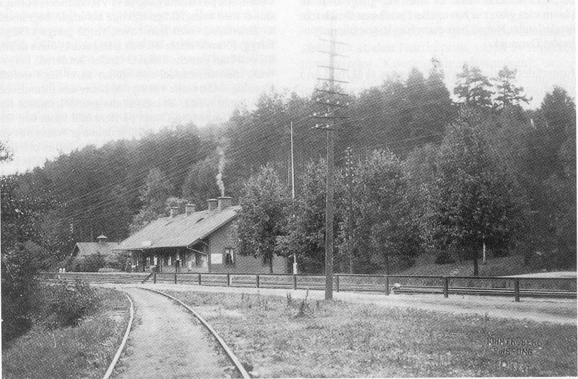 Graversfors old railway station (removed in 1968), north of the town of Norrköping in Sweden. The track on the left is the track to the furnace at Stens Bruk. The main line between Norrköping and Flen runs in front of the station, on the right in this picture.